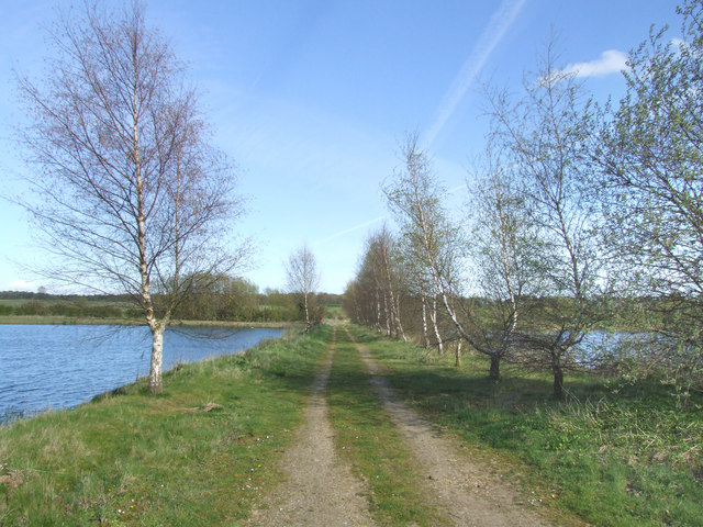 Bridle path and nature reserve near to Kirkby on Bain.